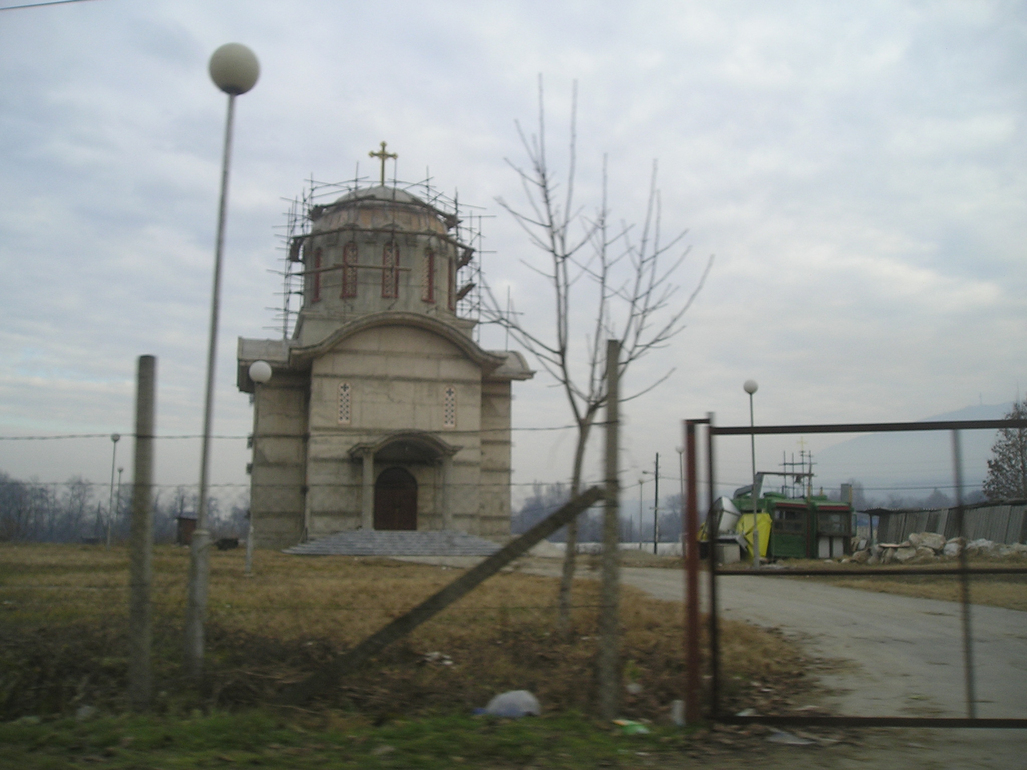 Church of St Zlata of Meglen in the village of Saraj, Republic of Macedonia.